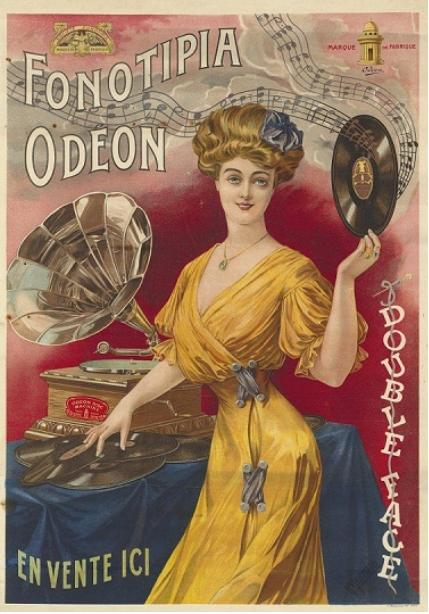 Poster for Fonotipia Odeon, double face, Paris, Imprimerie M. Belleville, L. Ménétrier [signed], [1904], chromolithography